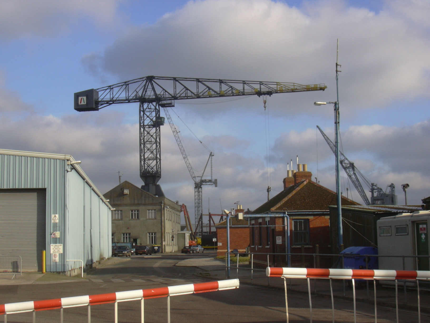 Falmouth Docks - Main Entrance